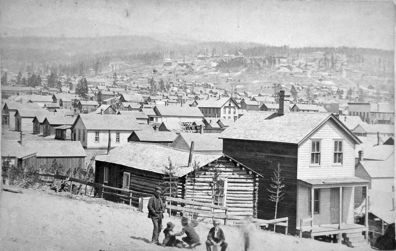 Circa 1880 Cabinet Card Photograph of the Silver Mining Boomtown of Leadville, Colorado. This wonderful, Card Mount Photograph is titled in manuscript on the reverse “Capitol Hill Leadville". Bird's-eye-view of the Mining Boomtown of Leadville, Colorado. The Image looks down on the center of Leadville with the "Eighth Avenue Motel" visible at the center of the Photo. Extensive mining works can be seen on the hill that raises on the far side of the Town. Four boys are visible in the foreground.